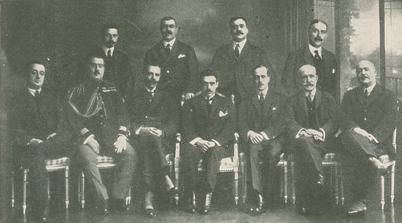 Last group photograph of the Portuguese cabinet (1920), led by Domingos Pereira. Standing, Messrs. João de Deus Ramos, Melo Barreto, Castro Ribeiro, e Jorge Nunes. Sitting, Messrs. Ramada Curto, Hélder Ribeiro, Mesquita de Carvalho, Domingos Pereira, António Fonseca, Celestino d'Almeida e José Barbosa.